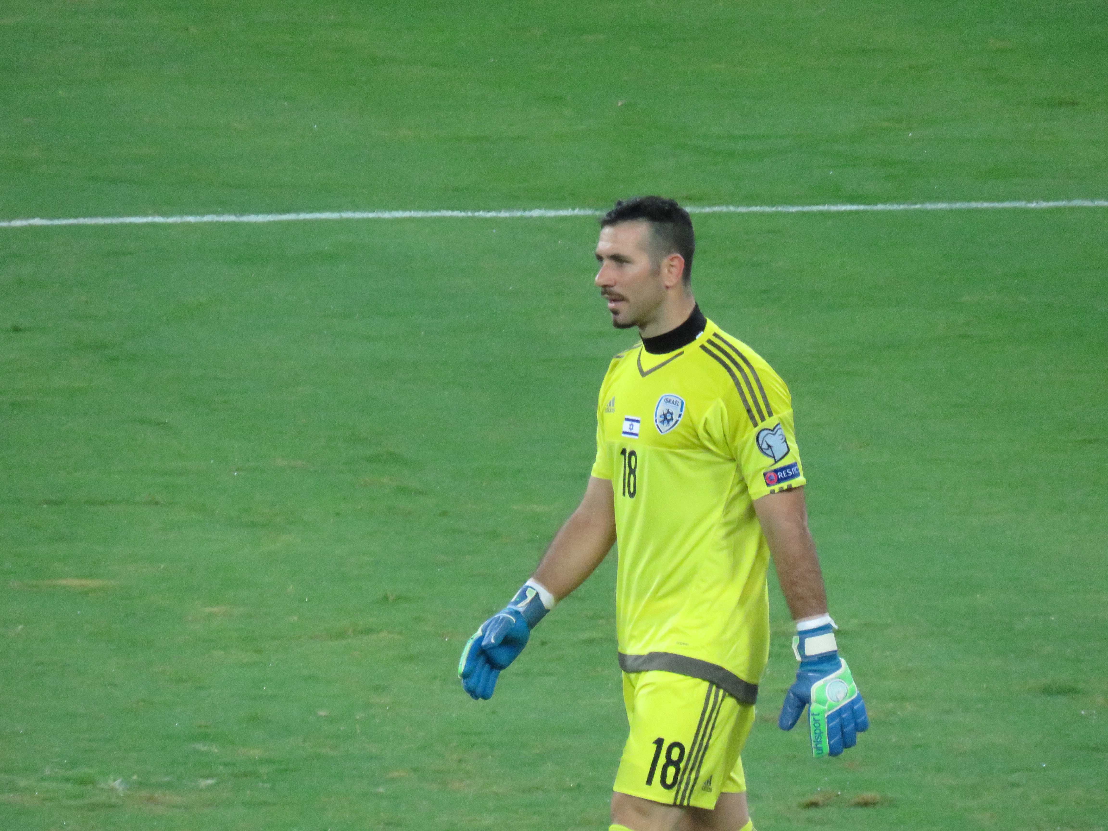 Israel vs. Andorra - September 3, 2015